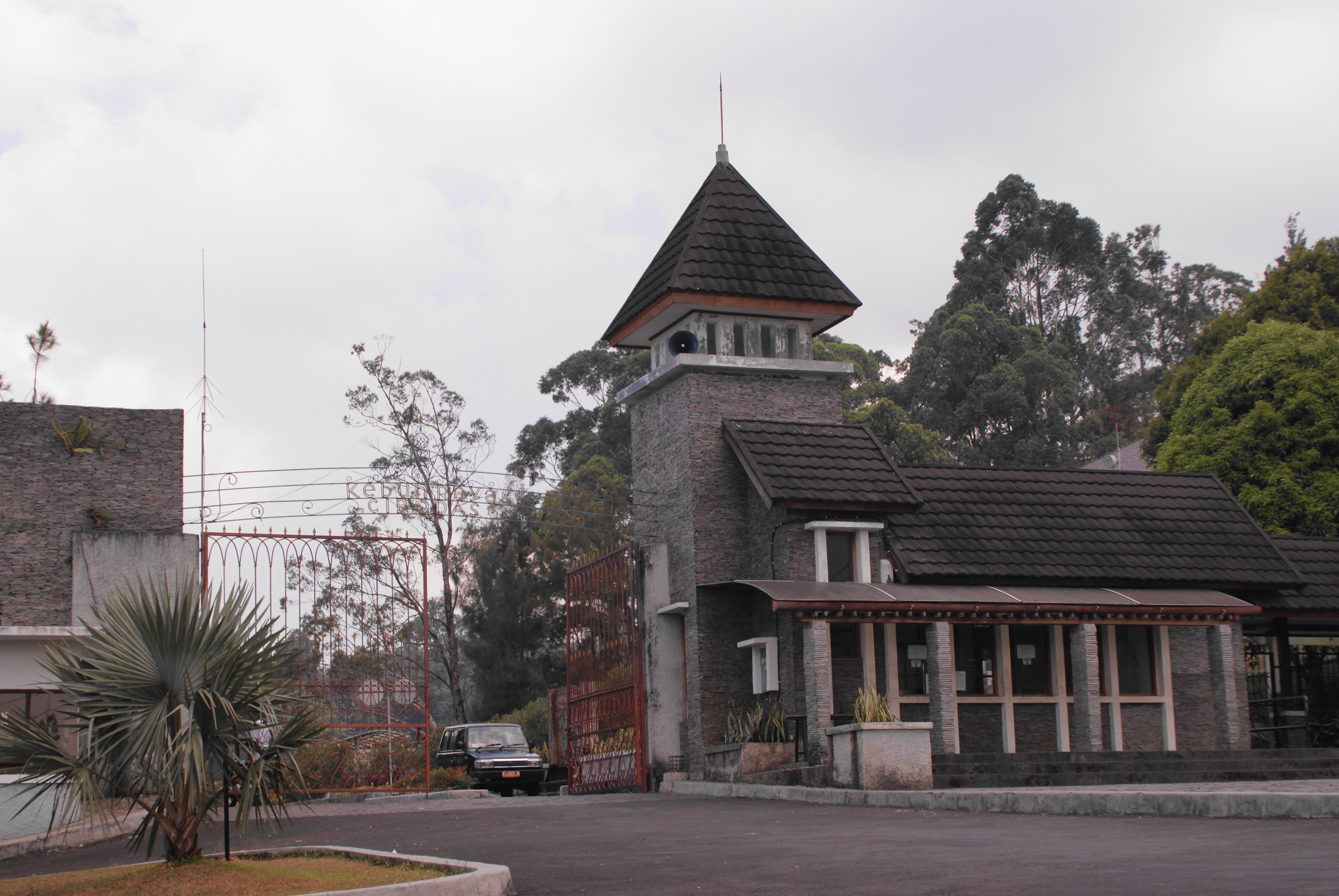 Main entrance to Cibodas Botanical Garden, Java, Indonesia